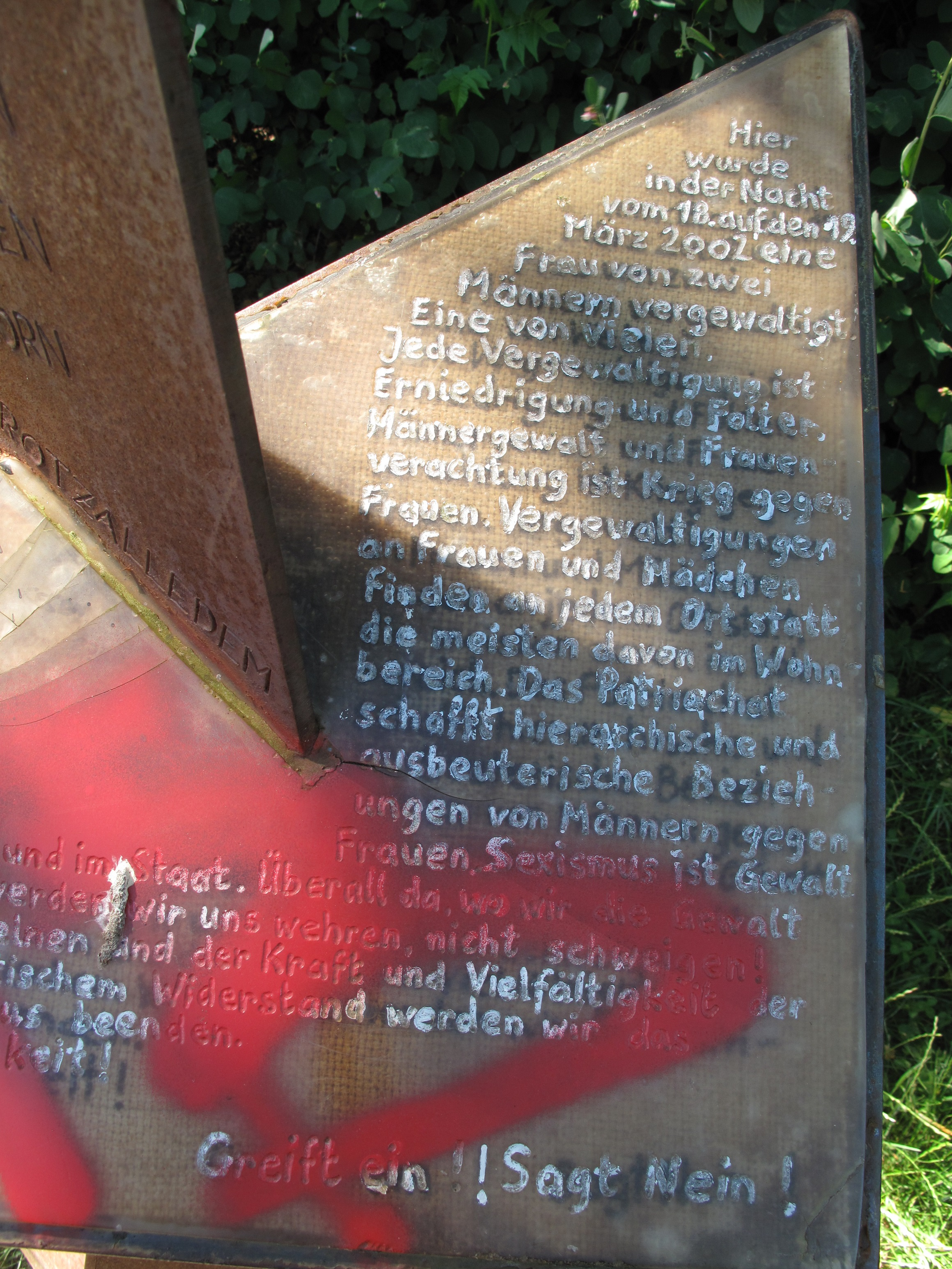 Wir haben Gesichter (german for: We have faces) is the name of a memorial, created in 2005, which is directed against rapes. It is situated in the Viktoriapark in Berlin-Kreuzberg and commemorates to the rape of a woman by two men in march 2002 at the place of the memorial.